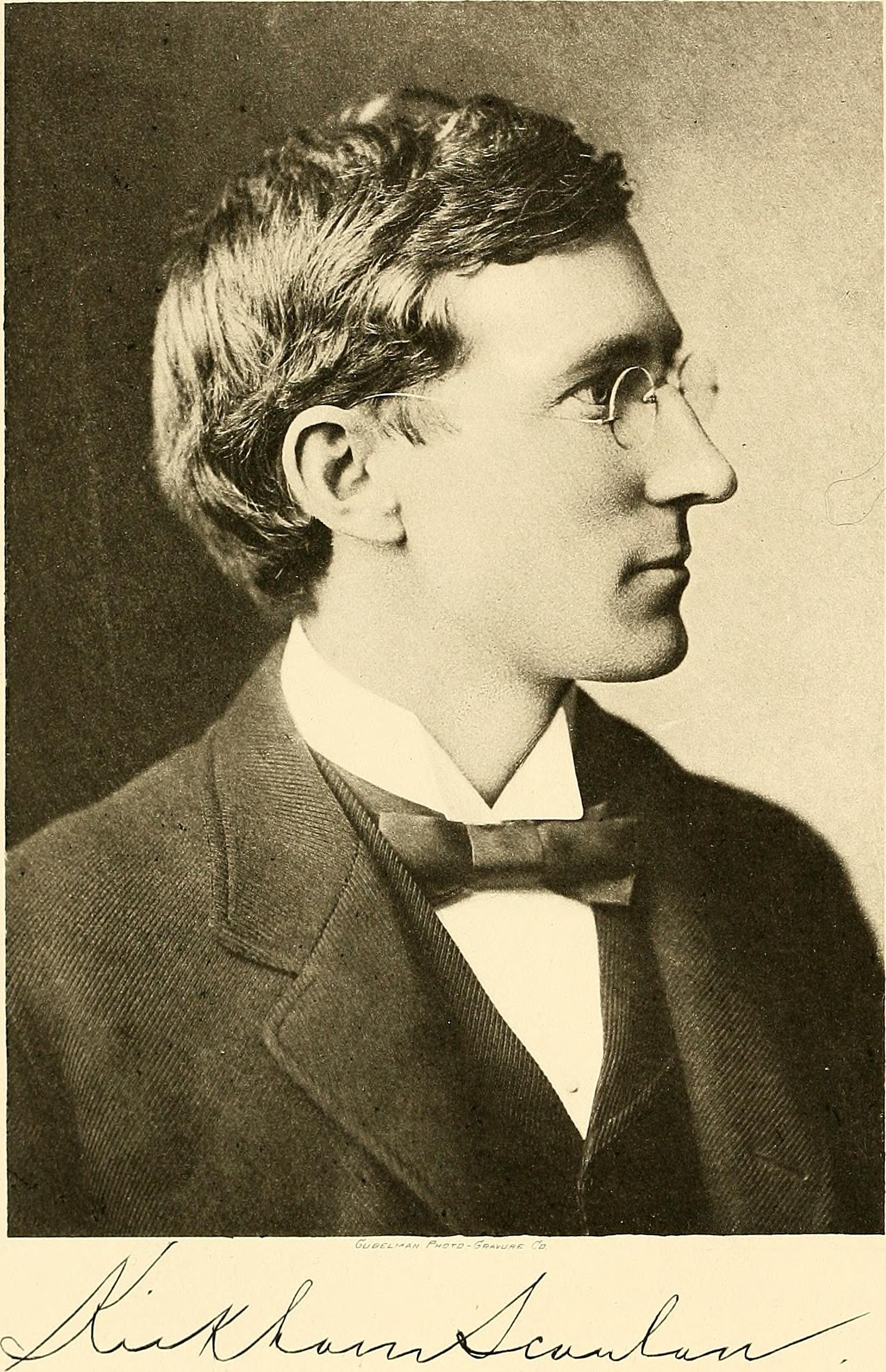 Kickham Scanlan (1864–1955), lawyer. Title: Historical review of Chicago and Cook county and selected biography. A.N. Waterman ... ed. and author of Historical review Year: 1908 (1900s) Authors: Waterman, Arba N. (Arba Nelson), 1836-1917 Subjects: Chicago (Ill.) -- History Chicago (Ill.) -- Biography Cook County (Ill.) -- History Cook County (Ill.) -- Biography Publisher: Chicago, New York, The Lewis publishing company Text Appearing Before Image: ' Text Appearing After Image: CHICAGO AND COOK COUNTY 711 promising career has been rounded out in the way most fitting to thetrue American citizen, who, whatever his many activities, is an-chored to wife, children and home. Until five years ago one of the most successful criminal lawyersof Chicago and Cook county was Kickham Scanlan, and he won his reputation by several notable cases in which he ap- f, peared as counsel either for the defense or prosecu- SCANLAN. ^ ^ . . , , ^^ o , , tion. it is said that Mr. Scanlan on several occa-sions took cases that seemed forlorn hopes and brought them to ^.successful issue. His management of evidence, his tact before a jury,and unusual powers in pleading have often come to notice in thecourts and contributed to a deservedly high reputation in the Chicagobar. During the last five years, however, he has been engaged al-most exclusively in the trial of civil cases, acting as attorney for anumber of large corporations. During the time he was sought ascounsel in criminal cases